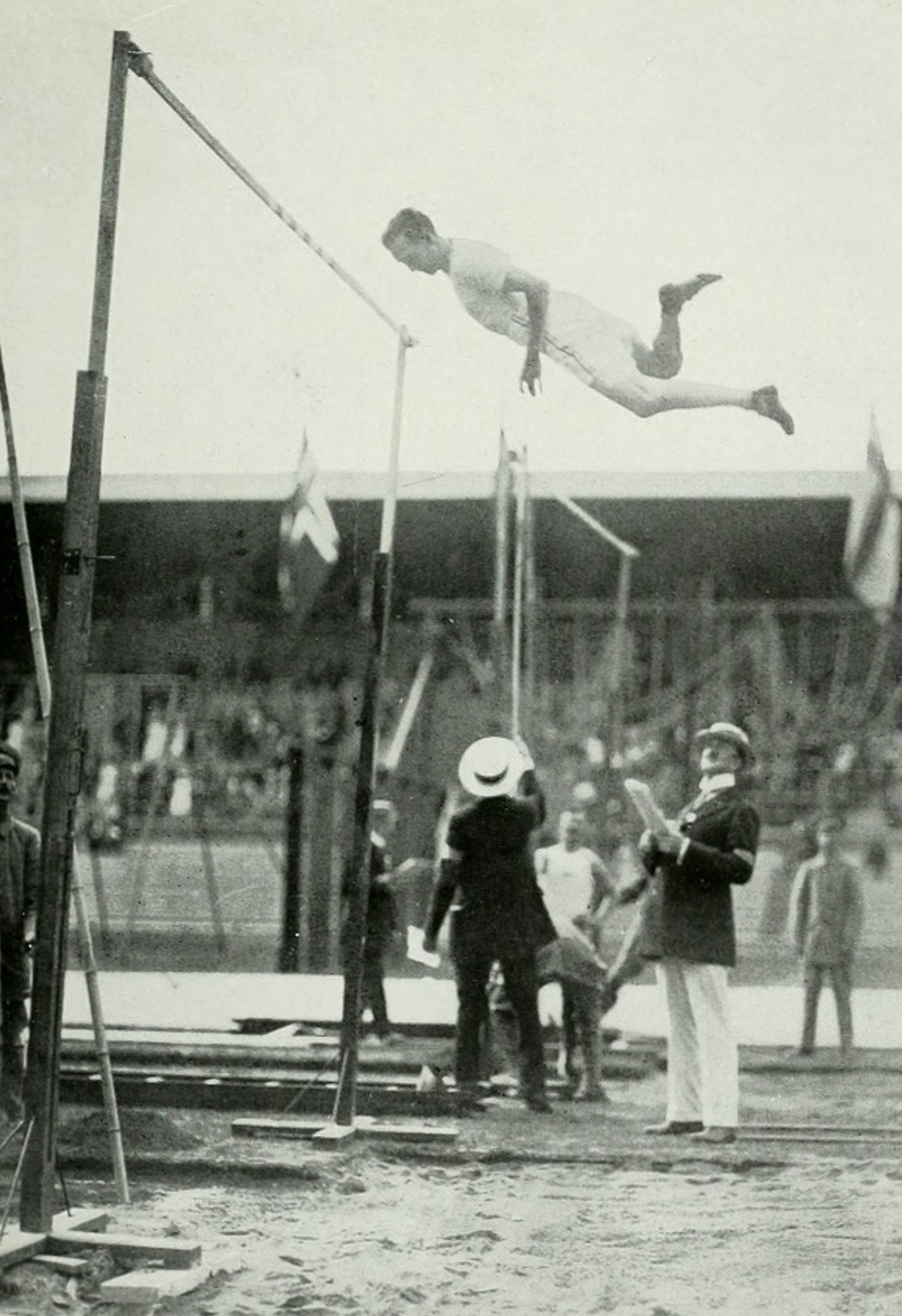 Frank Nelson during the pole vault competition at the 1912 Summer Olympics